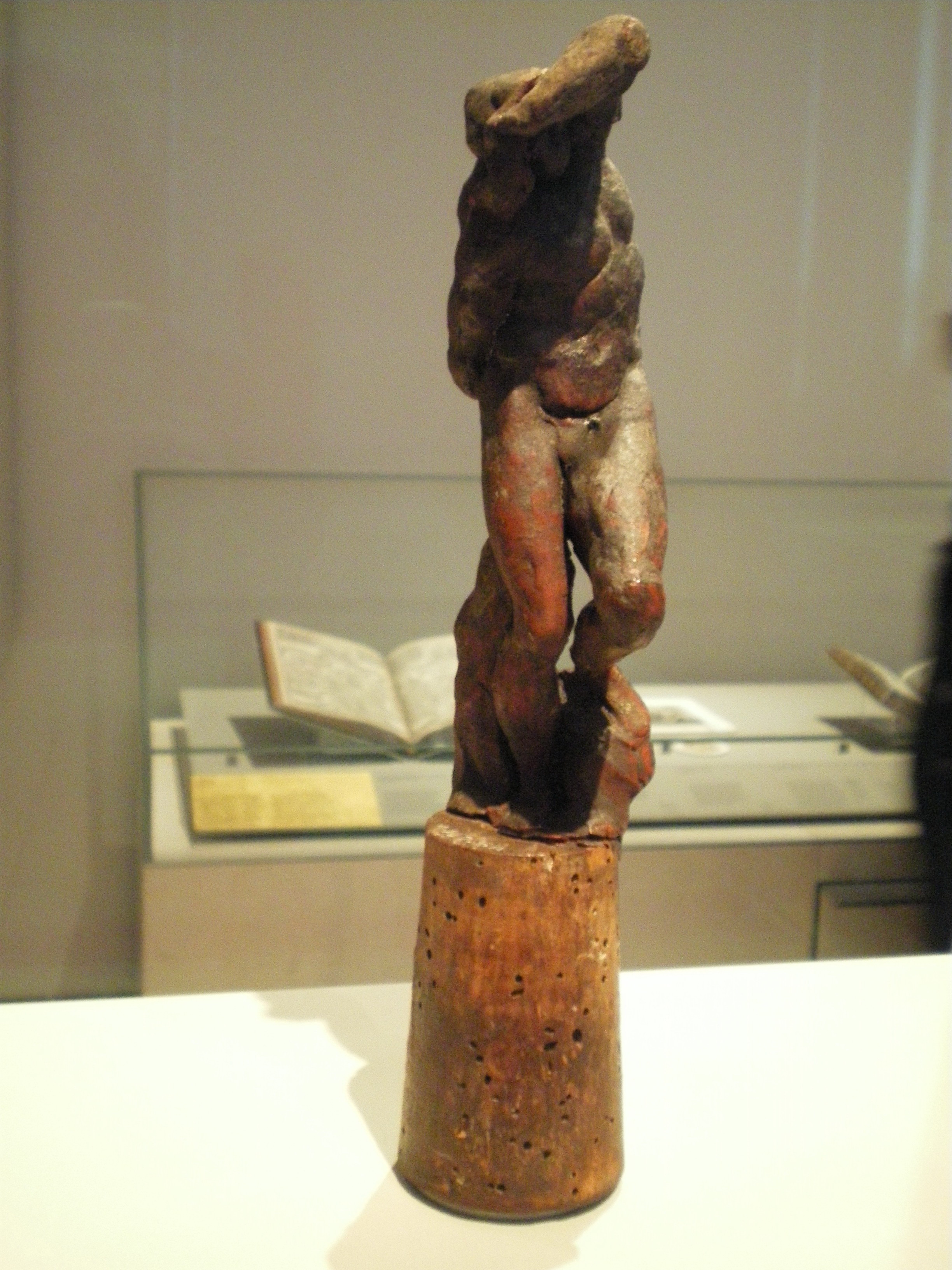 Model of a slave About 1516-19 Michelangelo Buonarroti (1473-1564) Italy, Florence Wax The small wax figure is a sketch model for the unfinished marble of the Young Slave in the Accademia in Florence, designed for the 1516 scheme for the tomb of Pope Julius II, who died in 1513. This scheme was the third of six produced for the problematic project, which, when it was commissioned in 1505, was planned as a large free-standing structure with more than 40 life-size or larger statues, and was intended for St Peter's in Rome. The existing, greatly reduced tomb was finally erected in San Pietro in Vincoli, Rome, in 1545. This model differs from the unfinished marble in several details, suggesting that the artist refined the design at a later stage. Michelangelo made a large number of drawings and models in wax, clay and terracotta in connection with both his painting and his sculpture. He destroyed many of his preparatory works, but the growing interest in the creative process and his extraordinary celebrity led several of his contemporaries to collect his drawings and models. One such collector was the painter and biographer Giorgio Vasari, a great admirer and friend of the artist. In his Life of Michelangelo he described what he claimed to be the sculptor's working method: a small model of wax or other firm material was immersed in water and gradually raised to reveal more of the figure as the carving of the marble progressed. Collection ID: 4117-1854 This photo was taken as part of Britain Loves Wikipedia in February 2010 by art_traveller.